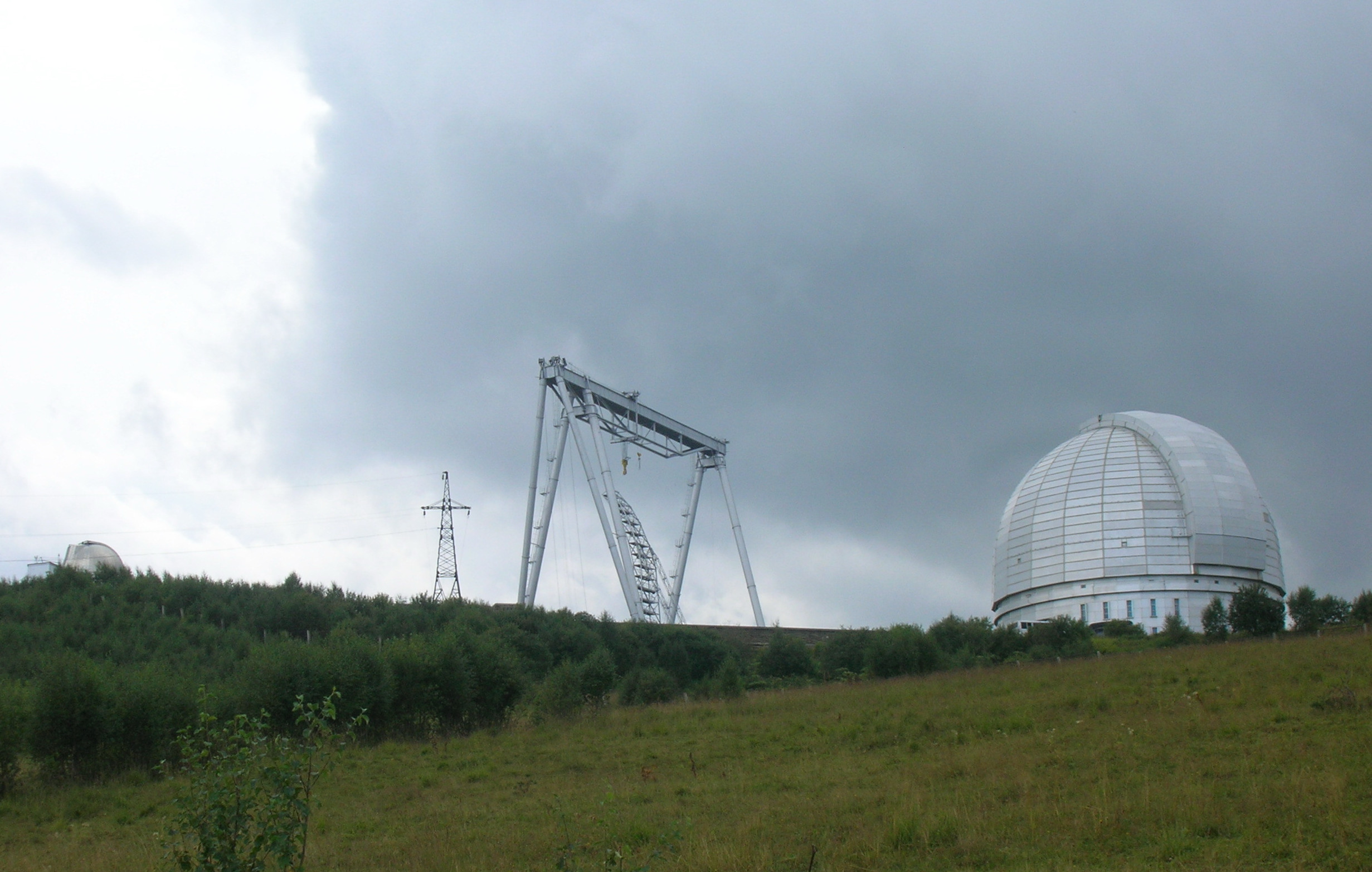 Special astrophysical Observatory of the Russian Academy of Sciences. Look here deep Space.